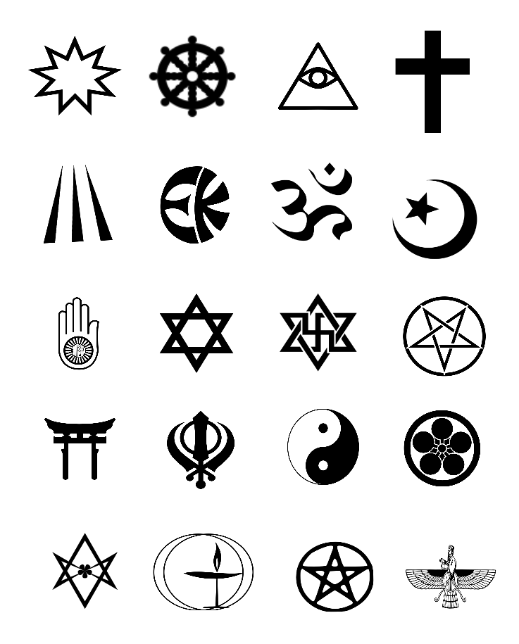 Alphabetic order, 1st row: Baha'i, Buddhism, Cao Dai, Christianity 2nd row: Druidism, Eckankar, Hinduism, Islam 3rd row: Jainism, Judaism, Raelism, Satanism/Second degree Wicca 4th row: Shinto, Sikhism, Taoism, Tenrikyo 5th row, Thelema, Unitarian Universalism, Wicca, Zoroastrianism Everyone is allowed to use this image.